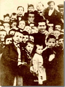 John Bosco with his boys in 1861